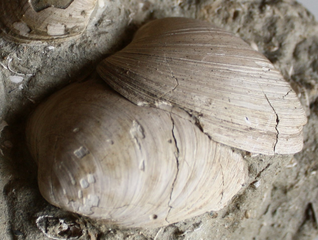 Cropped image of taxon in file name